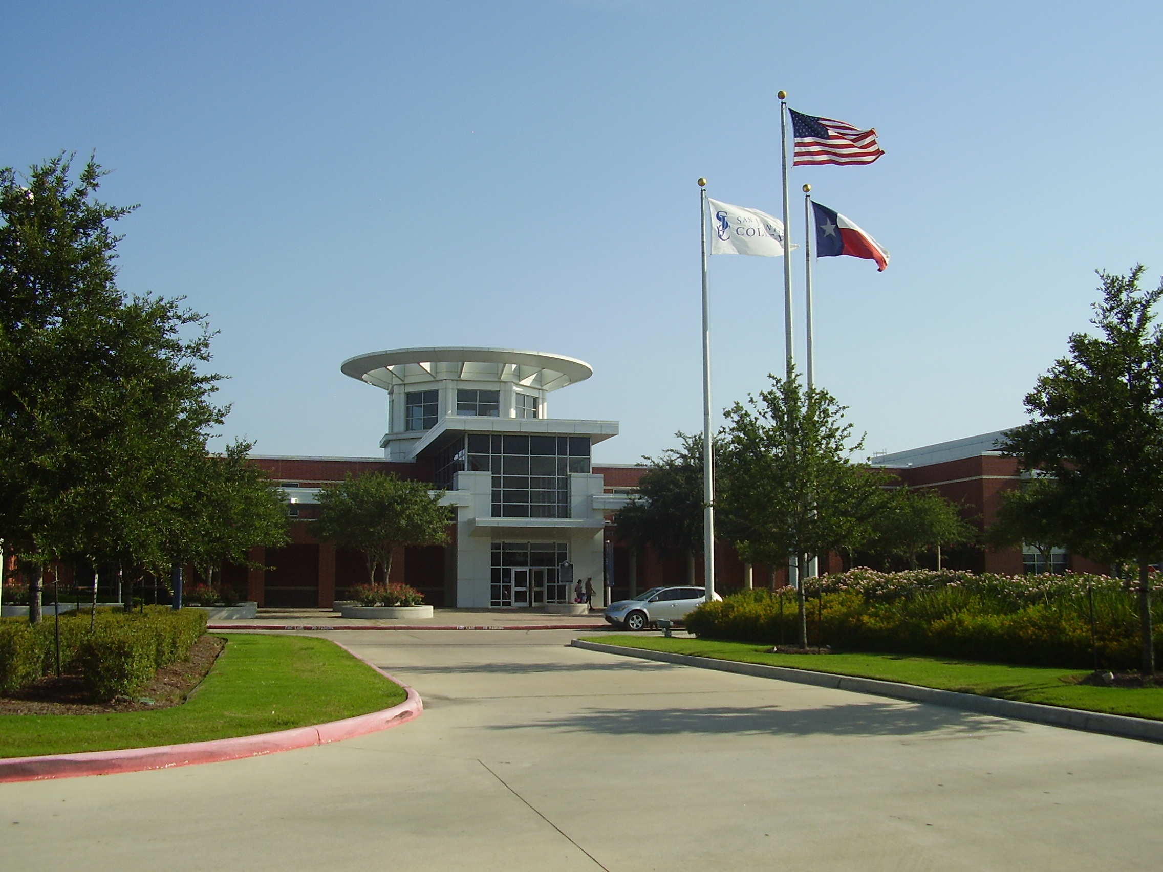 San Jacinto College Central Campus main building